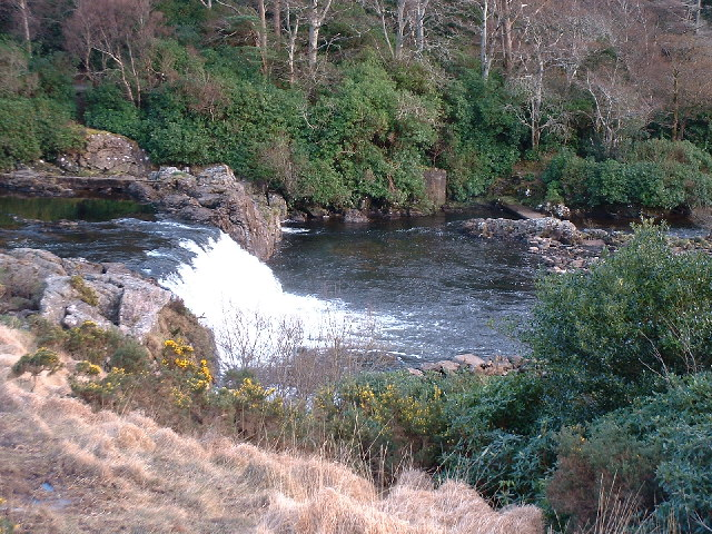 Aasleagh Falls, Erriff River. These falls, I believe, are famous for being in a fight scene in the Silent Man